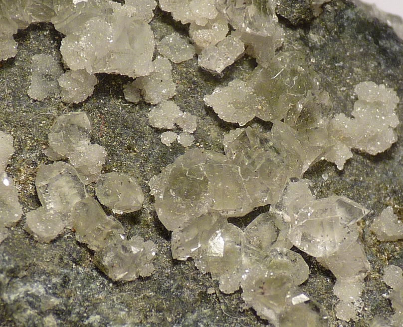 Datolite Locality: Kuhlenberg quarry, Silbach, Winterberg, Sauerland, North Rhine-Westphalia, Germany Field of view 1.5 cm. Specimen and photo Leon Hupperichs.